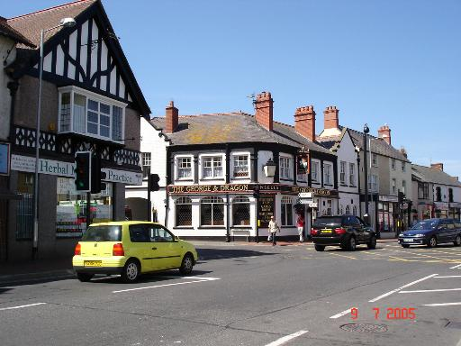 Abergele Town Centre of Abergele